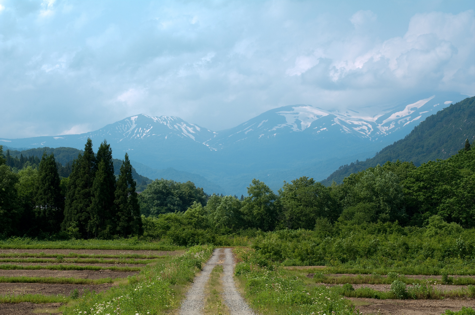 The South side of Mt. Yudono (left) & Mt. Ubagatake (center) & Mt. Gassan (right).